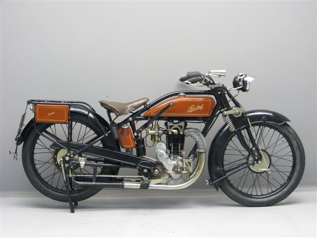 Schüttof Model F 350 cc from 1926.